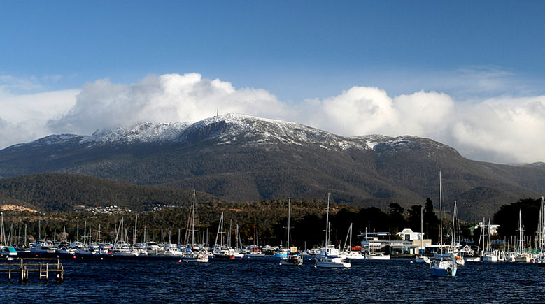 Mount Wellington from Lindisfarne, Hobart